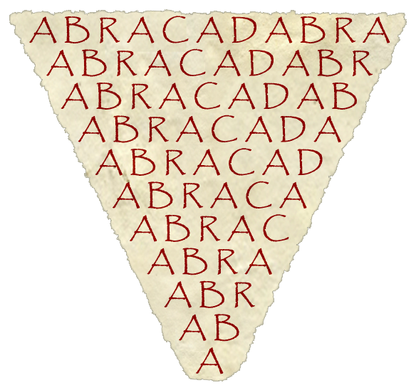 The first known mention of the word abracadabra was in the third century AD in a book called Liber Medicinalis (sometimes known as De Medicina Praecepta Saluberrima) by Quintus Serenus Sammonicus, physician to the Roman emperor Caracalla, who in chapter 51 prescribed that malaria sufferers wear an amulet containing the word written in the form of a triangle